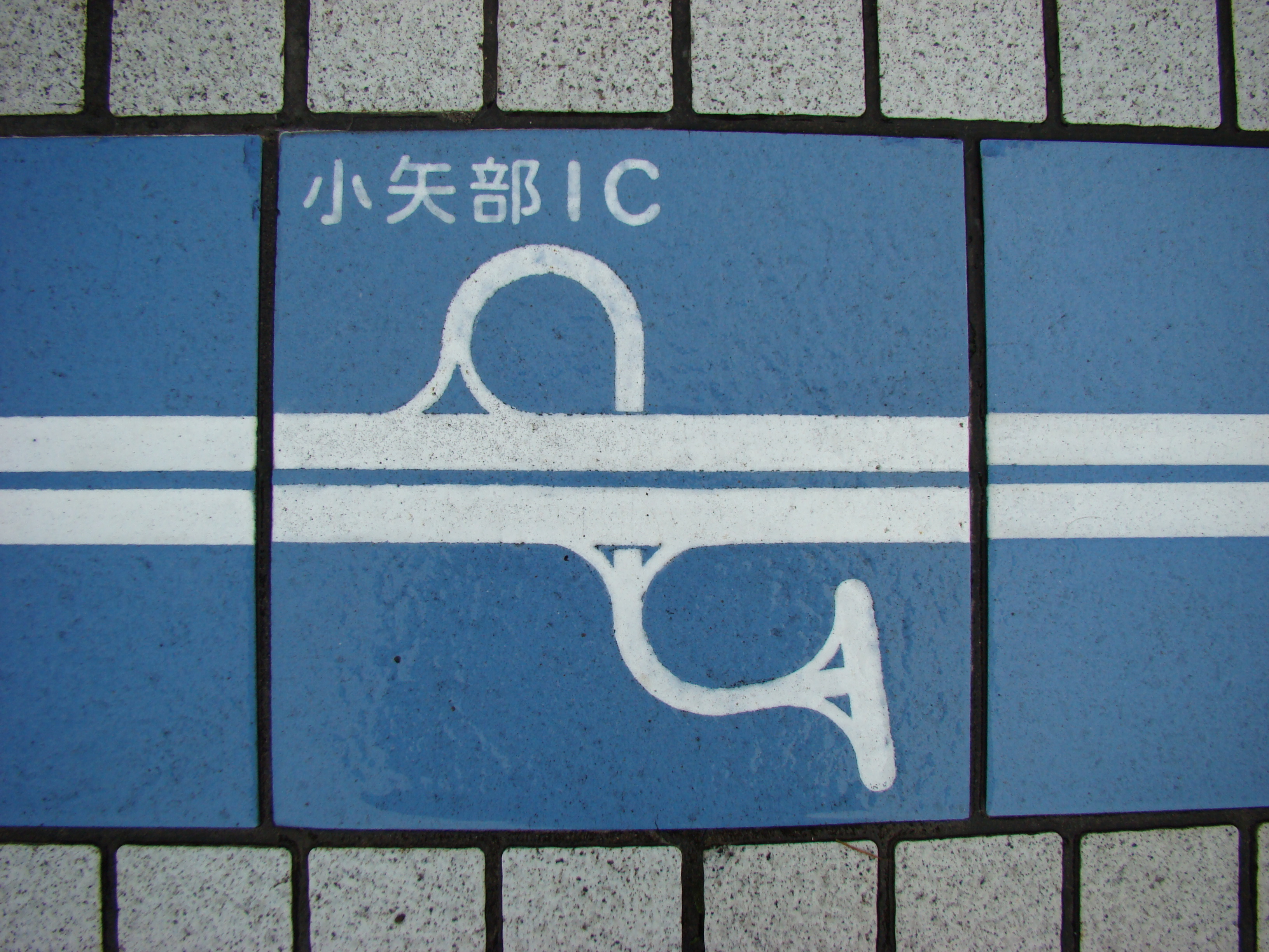 The tile which designed a shape of the Oyabe Interchange（Hokuriku Expressway）（There is this tile in Hokuriku Expressway Nadachi-Tanihama Service Area.）. Place - Chayagahara,Joetsu City,Niigata Prefecture,Japan Date - August 9, 2009 Format - JPEG, 3264x2448pixel, 24bit colors. Photographer - NALA Wiki (talk)